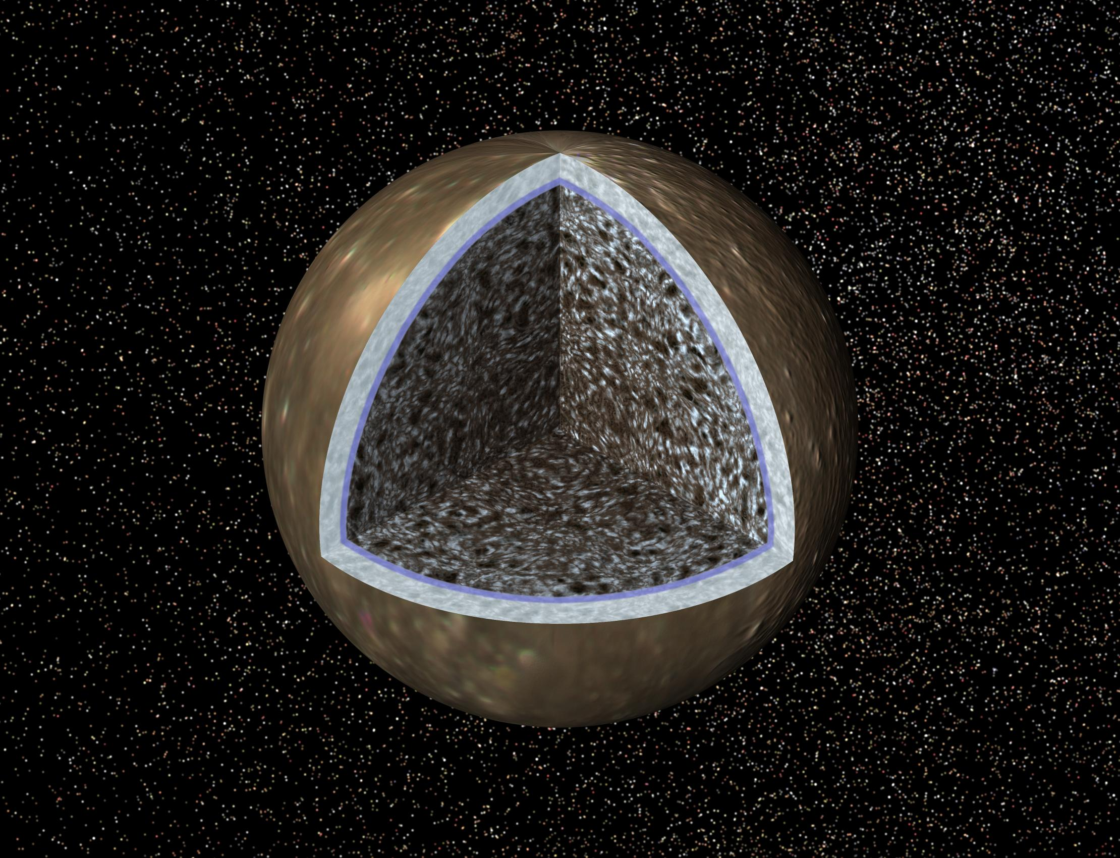 This artist's concept, a cutaway view of Jupiter's moon Callisto, is based on recent data from NASA's Galileo spacecraft which indicates a salty ocean may lie beneath Callisto's icy crust. These findings come as a surprise, since scientists previously believed that Callisto was relatively inactive. If Callisto has an ocean, that would make it more like another Jovian moon, Europa, which has yielded numerous hints of a subsurface ocean. Despite the tantalizing suggestion that there is an ocean layer on Callisto, the possibility that there is life in the ocean remains remote. Callisto's cratered surface lies at the top of an ice layer, (depicted here as a whitish band), which is estimated to be about 200 kilometers (124 miles) thick. Immediately beneath the ice, the thinner blue band represents the possible ocean, whose depth must exceed 10 kilometers (6 miles), according to scientists studying data from Galileo's magnetometer. The mottled interior is composed of rock and ice. Galileo's magnetometer, which studies magnetic fields around Jupiter and its moons, revealed that Callisto's magnetic field is variable. This may be caused by varying electrical currents flowing near Callisto's surface, in response to changes in the background magnetic field as Jupiter rotates. By studying the data, scientists have determined that the most likely place for the currents to flow would be a layer of melted ice with a high salt content. These findings were based on information gathered during Galileo's flybys of Callisto in November 1996, and June and September of 1997. JPL manages the Galileo mission for NASA's Office of Space Science, Washington, DC.